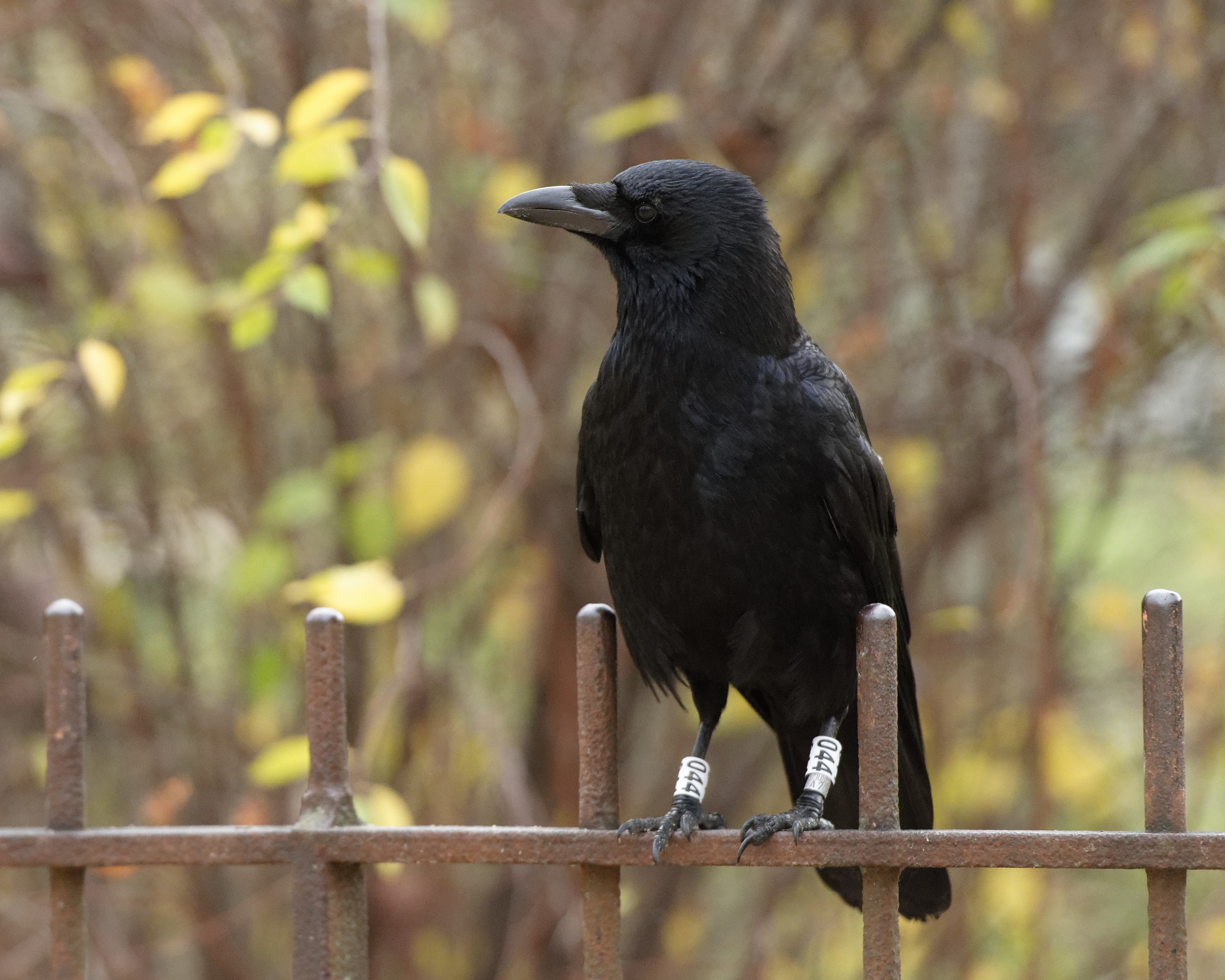 Carrion crow (Corvus c. corone) in the Jardin des Plantes in Paris bearing white Darvic PVC rings with a black 3-number code (on both tarsus) and a metal ring (on left tarsus), as part of a ringing scheme to study the dispersal of carrion crows in the Paris area (EURING link).